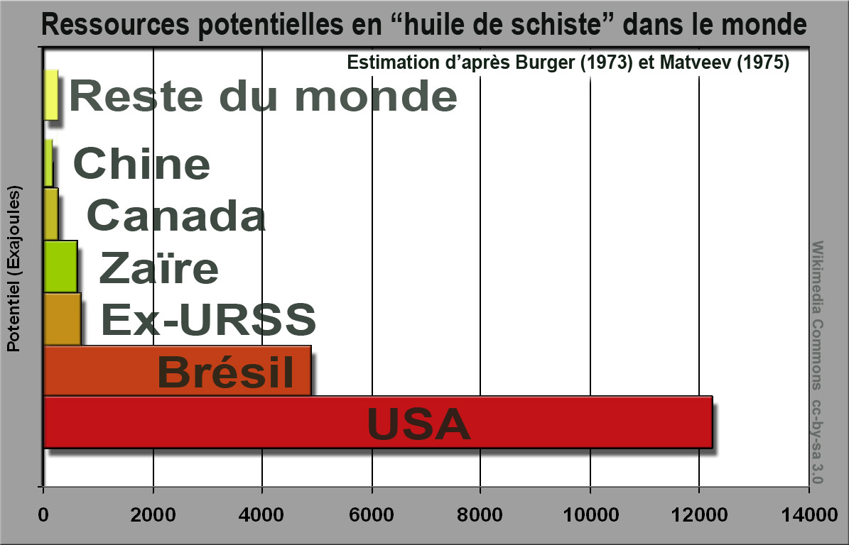 major oil shale resources in the world (in exajoules of potential recoverable oil)